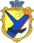 Ustyluh coat of arms